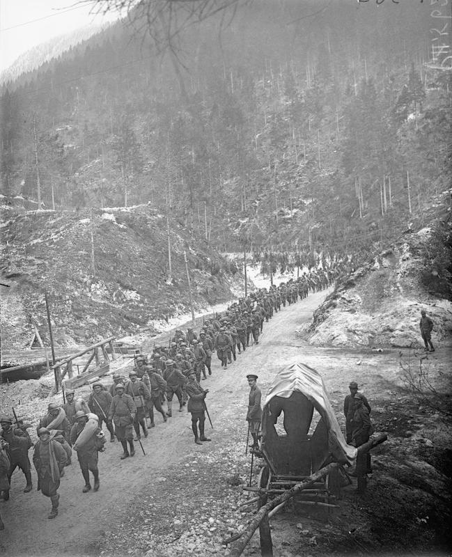 Battle of Vittorio Veneto Italian troops in Val d' Assa